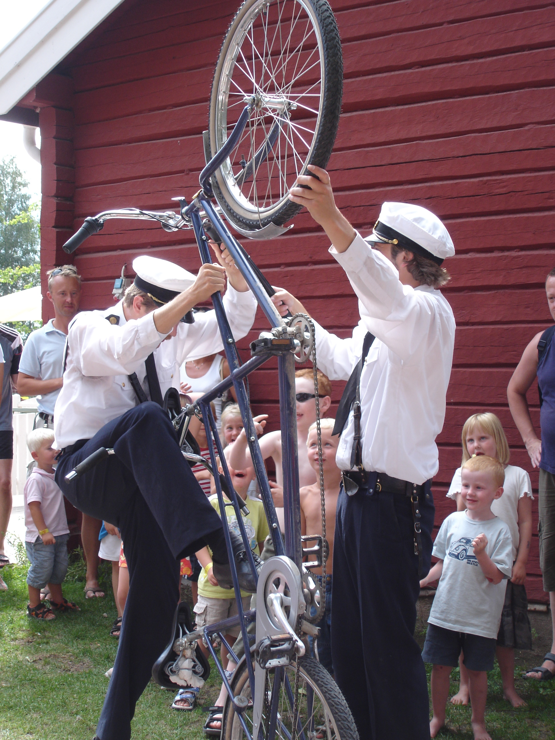 Kling and Klang clowning about with a tandem bike